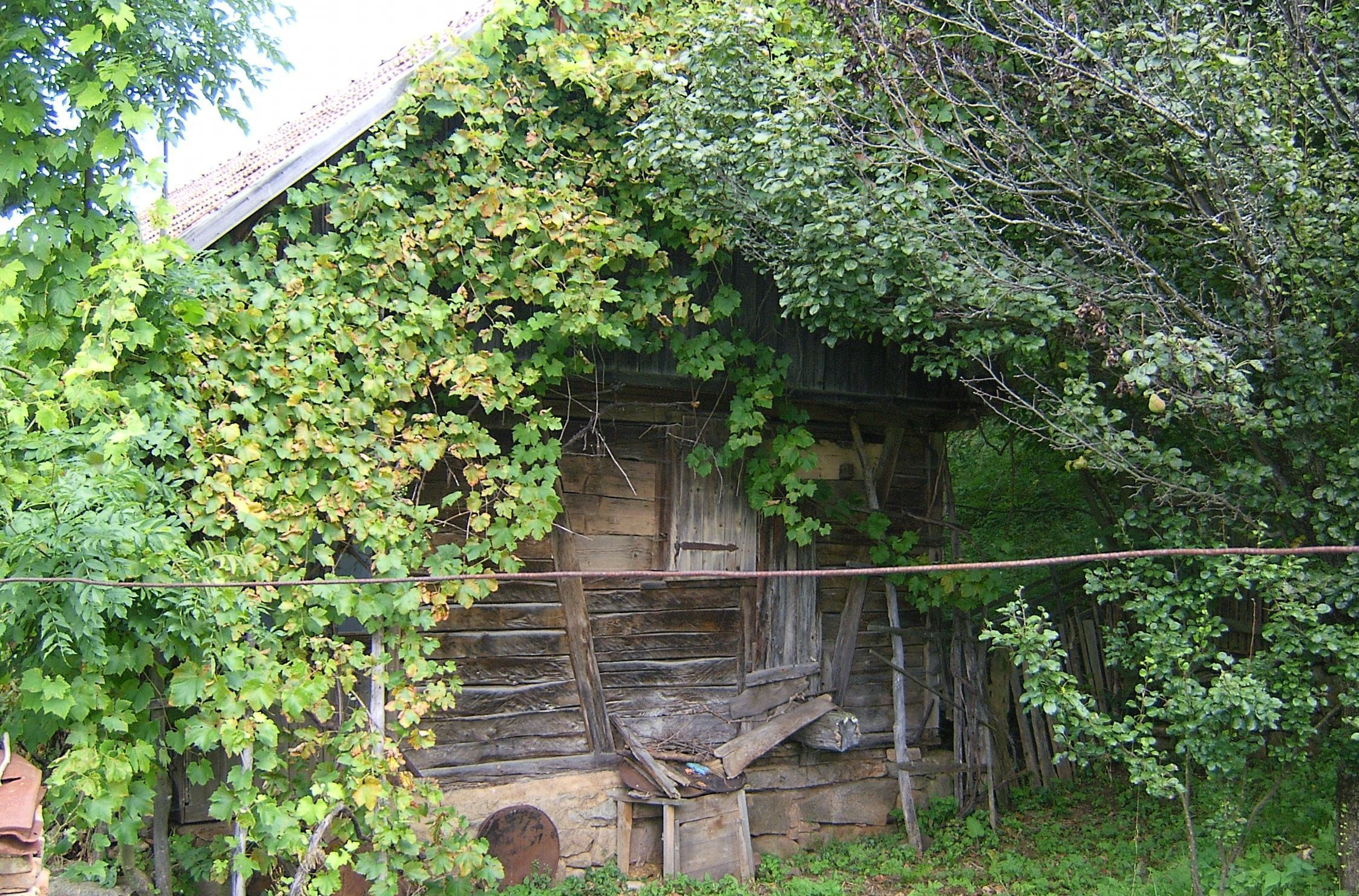 Millbuilding in Călăţele (hu. Kiskalota, de. Kelelezel), Transylvania